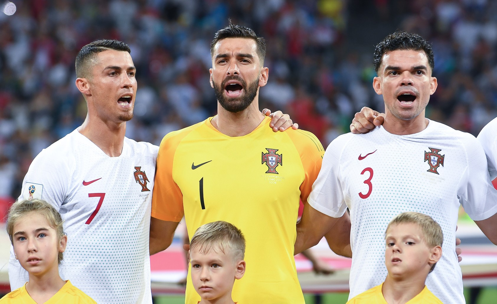 2018 FIFA World Cup Match 49, Uruguay v Portugal